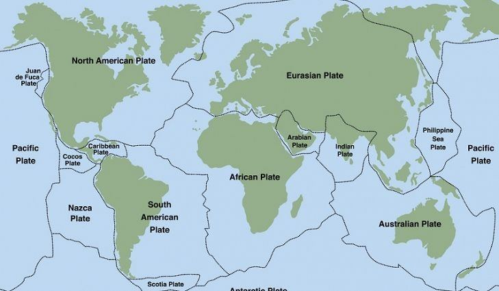 Earth tectonic plates